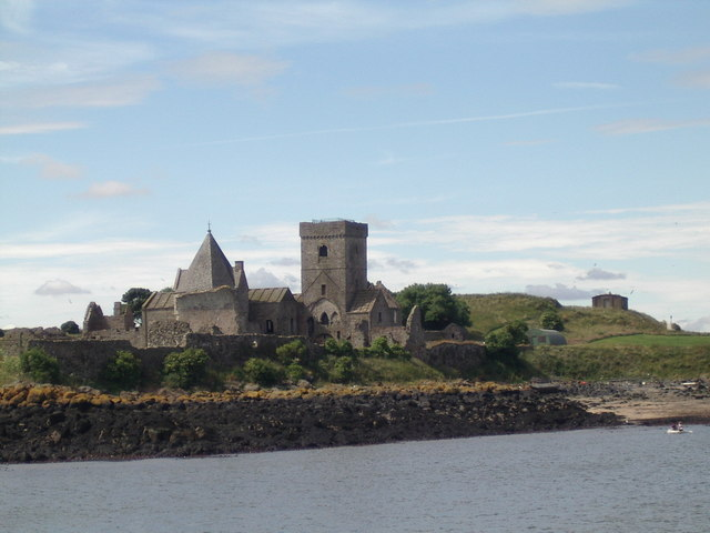 Inchholm Abbey